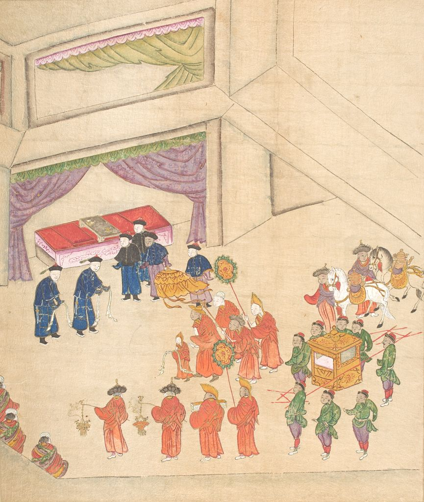 Finding a Dalai Lama (7/8), Qing Dynasty